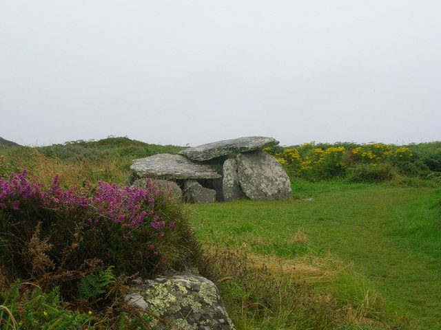 Megalithic Tomb near Toormore